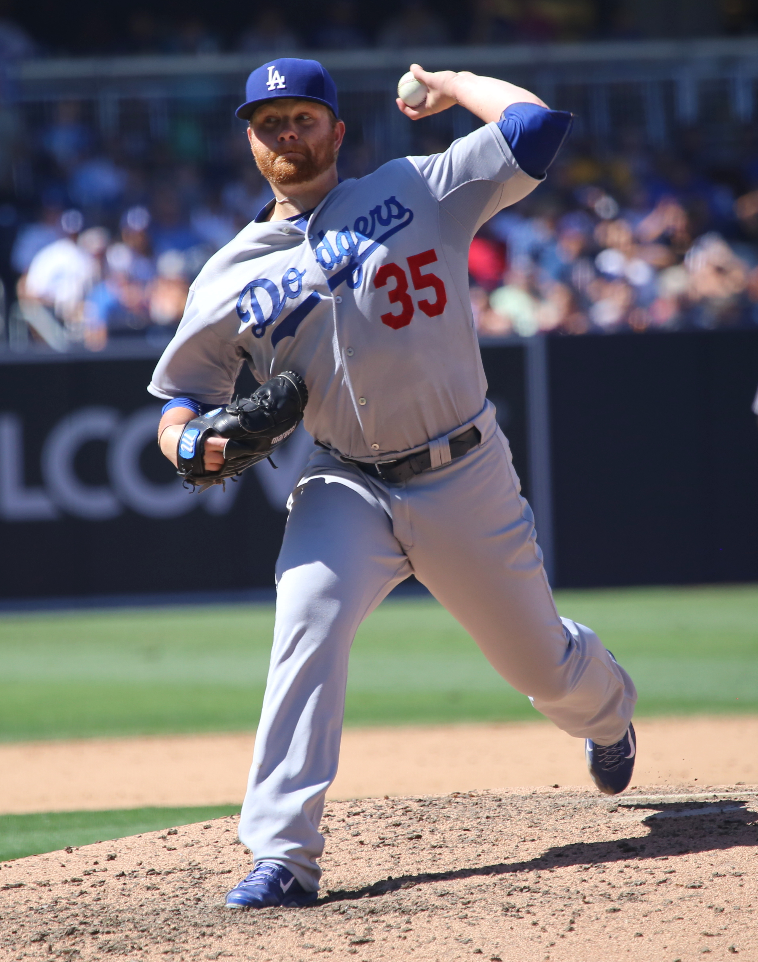 Brett Anderson delivers a pitch against the Padres.